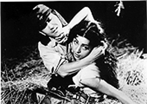 still photo of "Hi no Hare"